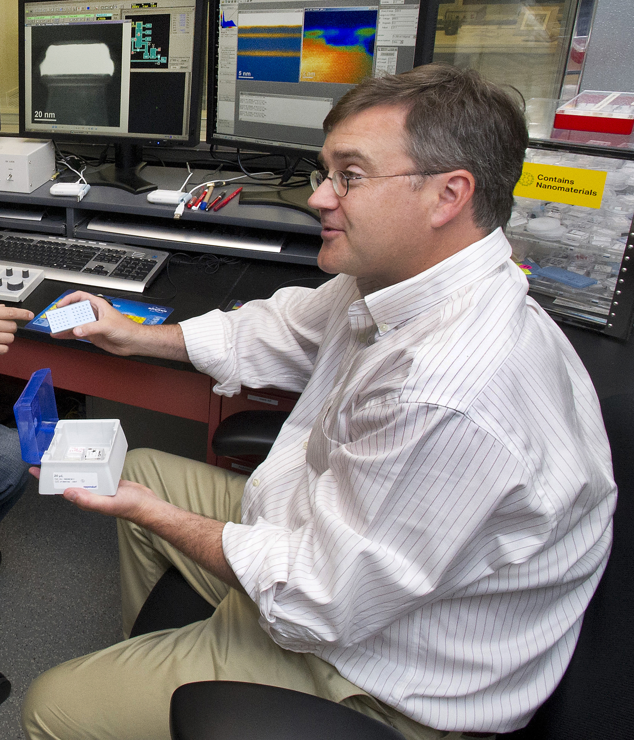 Brookhaven Lab scientist Eric Stach in the Center for Functional Nanomaterials. The researchers have developed a method for growing combinations of different materials in a needle-shaped crystal called a nanowire.